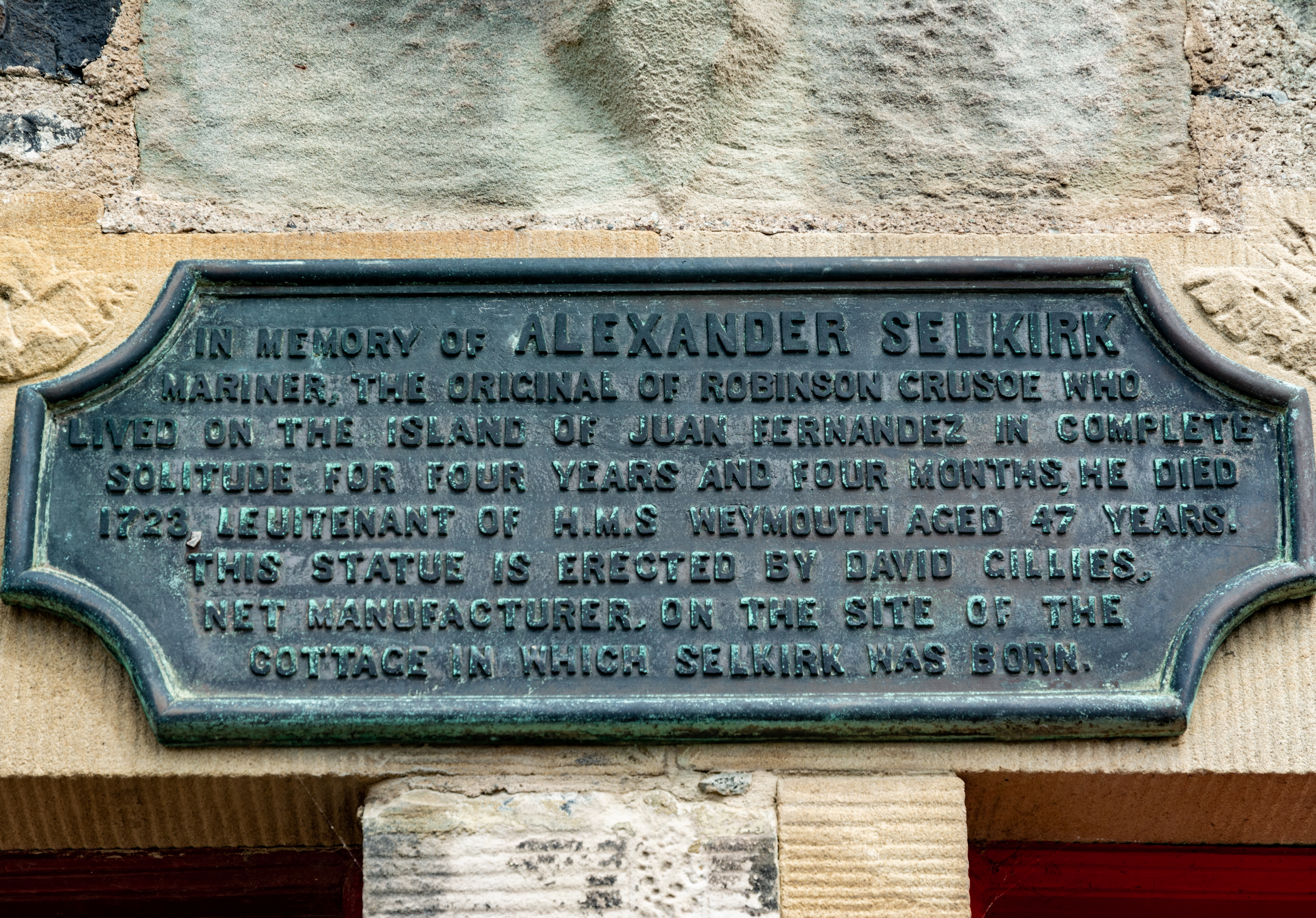 Plaque providing details for Alexander Selkirk statue, Lower Largo, Scotland